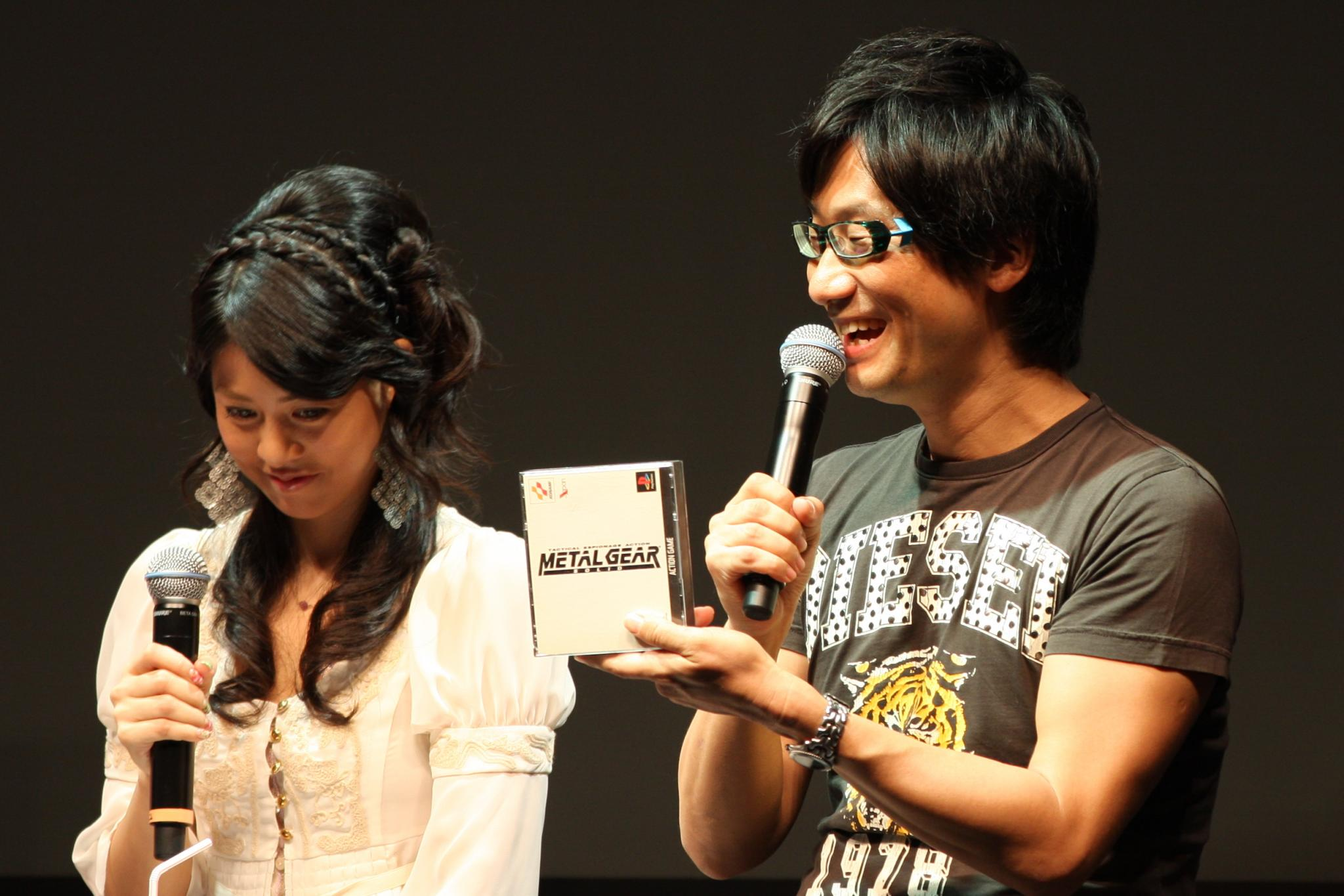 Hideo Kojima(小島秀夫) and Yumi Kikuchi(菊池由美) shows Metal Gear for PS One.